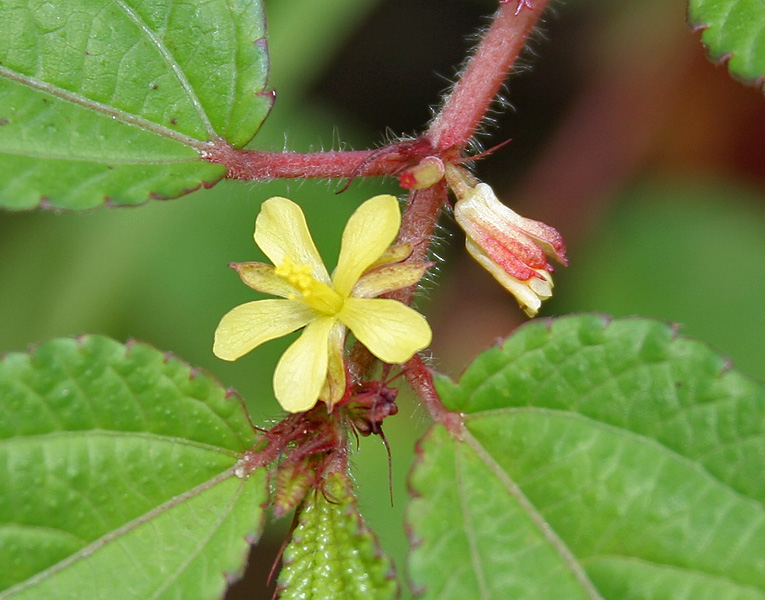 Description corrected as Corchorus aestuans in Hyderabad , India.